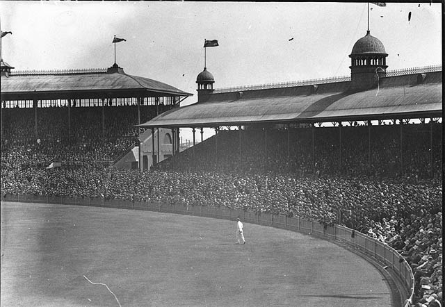 Image: [1] Image details: [2] Author died in 1953; this means public domain (Australia) is applicable under "B".